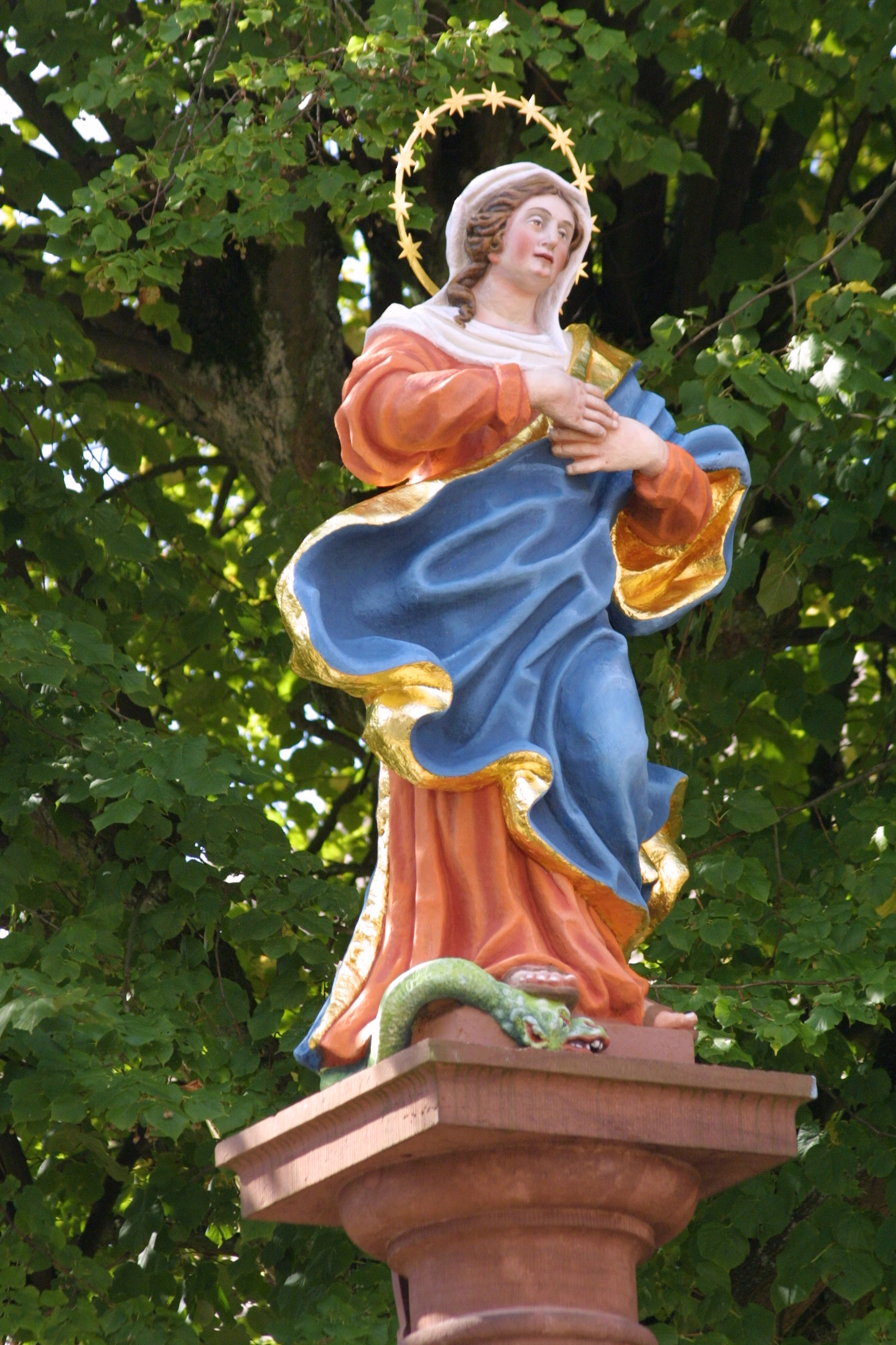 Maria in Mudau